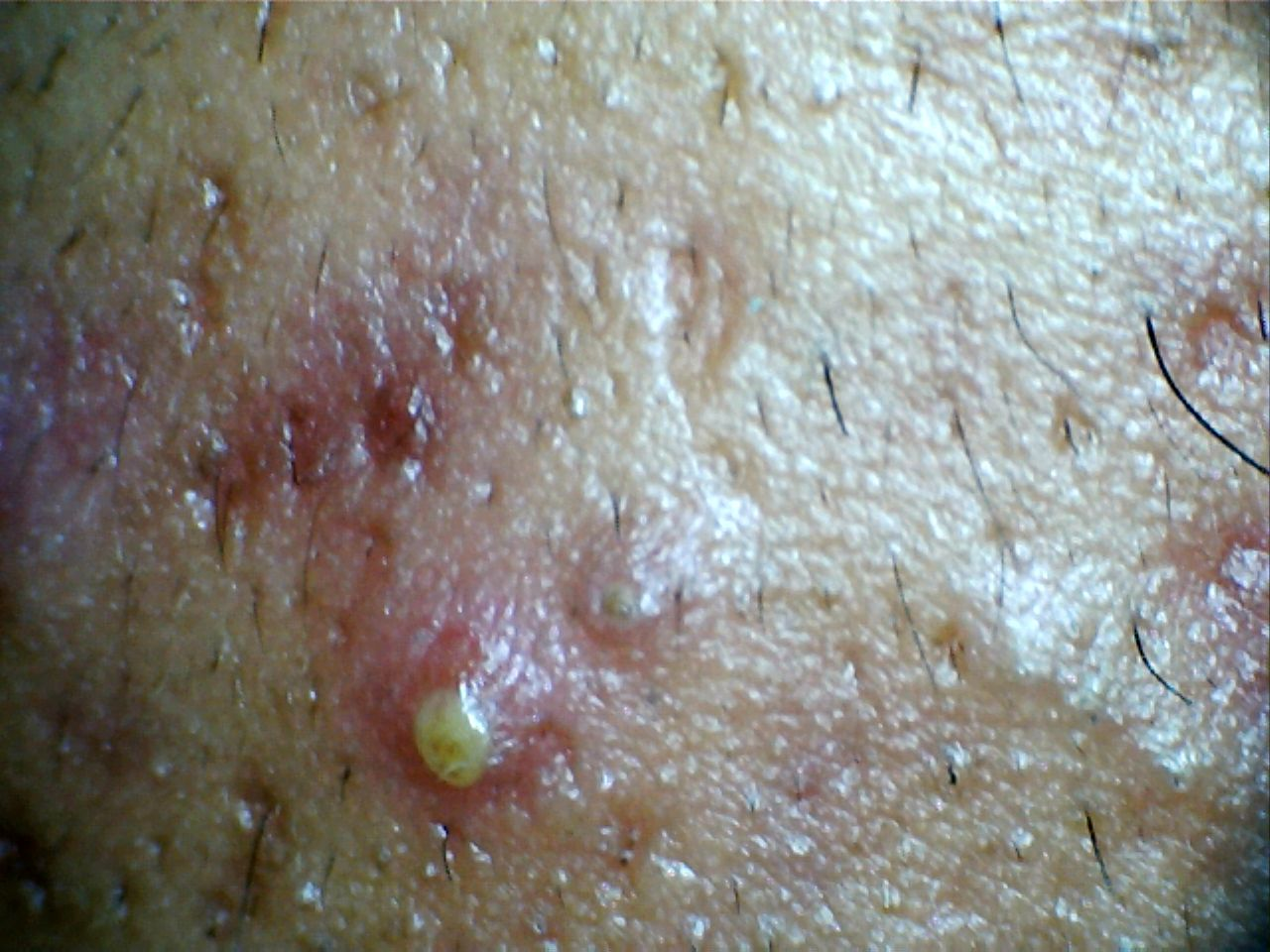 A pustule.